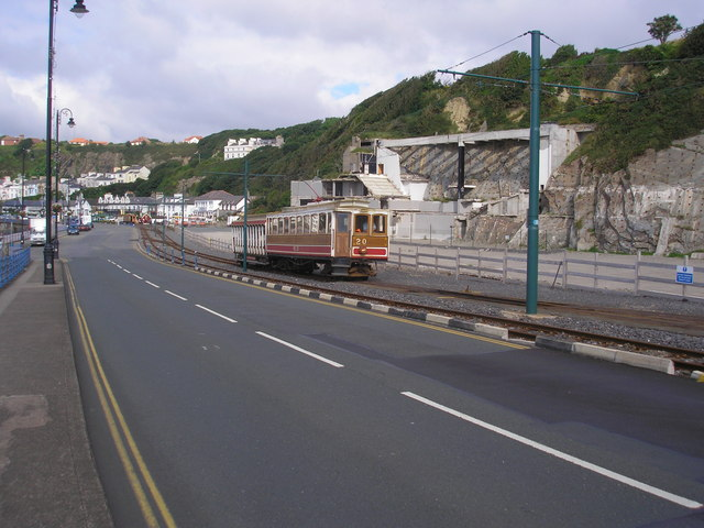 The remains of Summerland